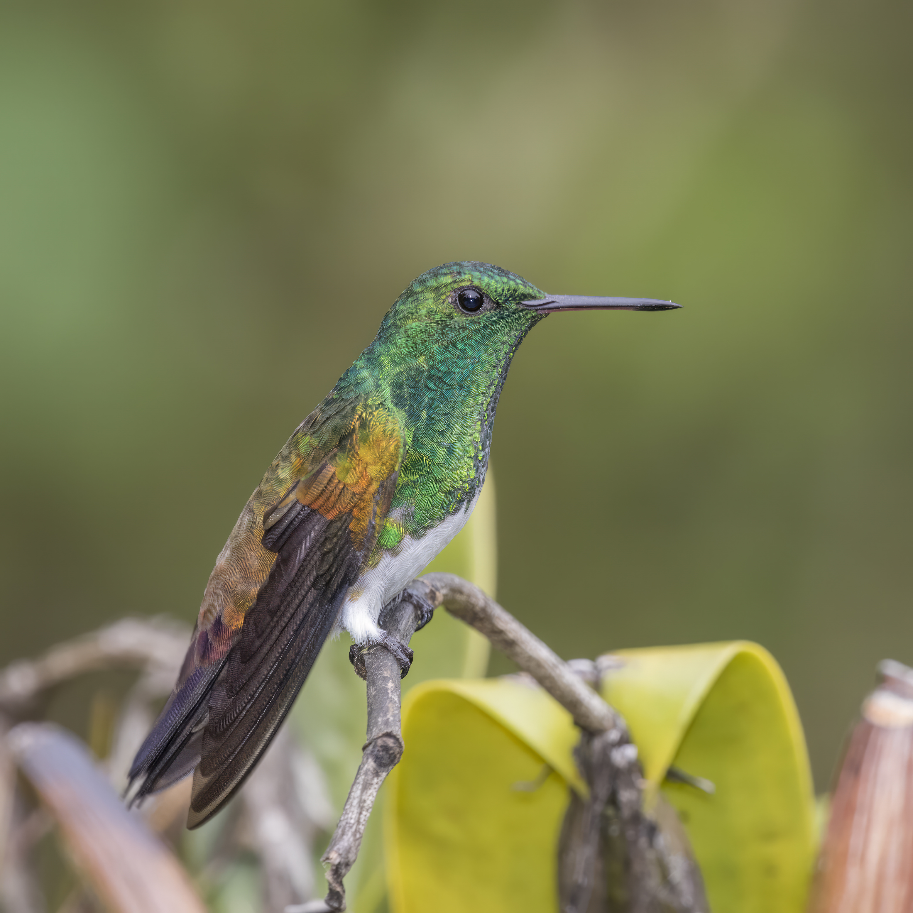 Snowy-bellied hummingbird (Amazilia edward niveoventer), Mount Totumas cloud forest, Panama